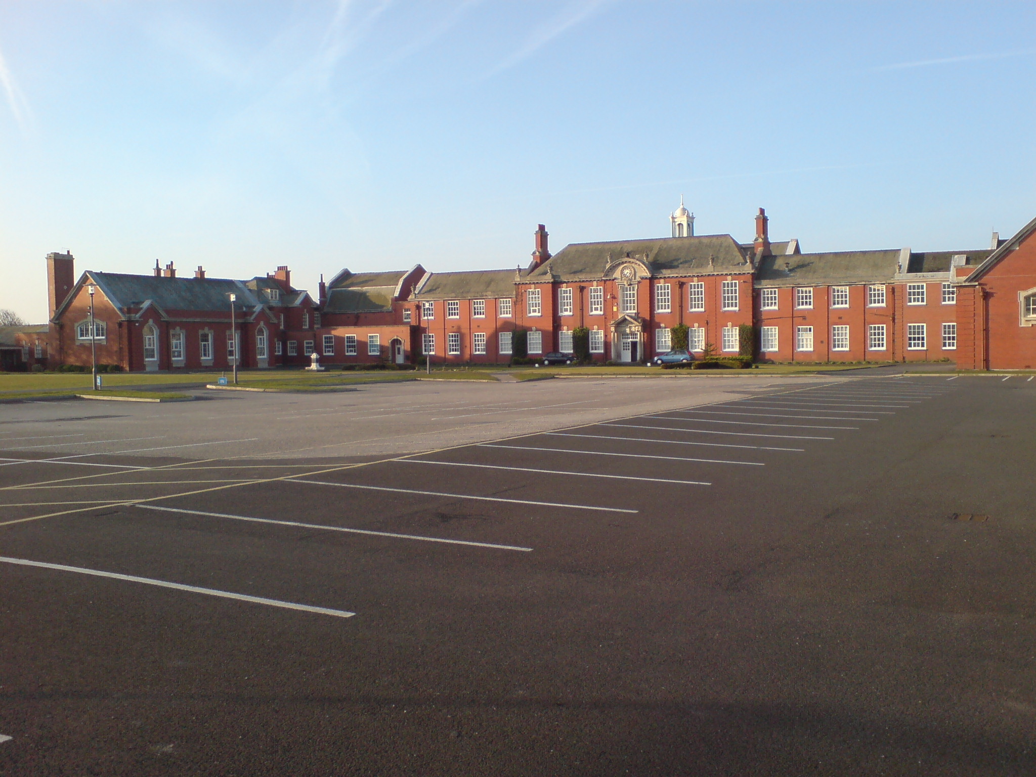 King Edward VII and Queen Mary School, Lytham